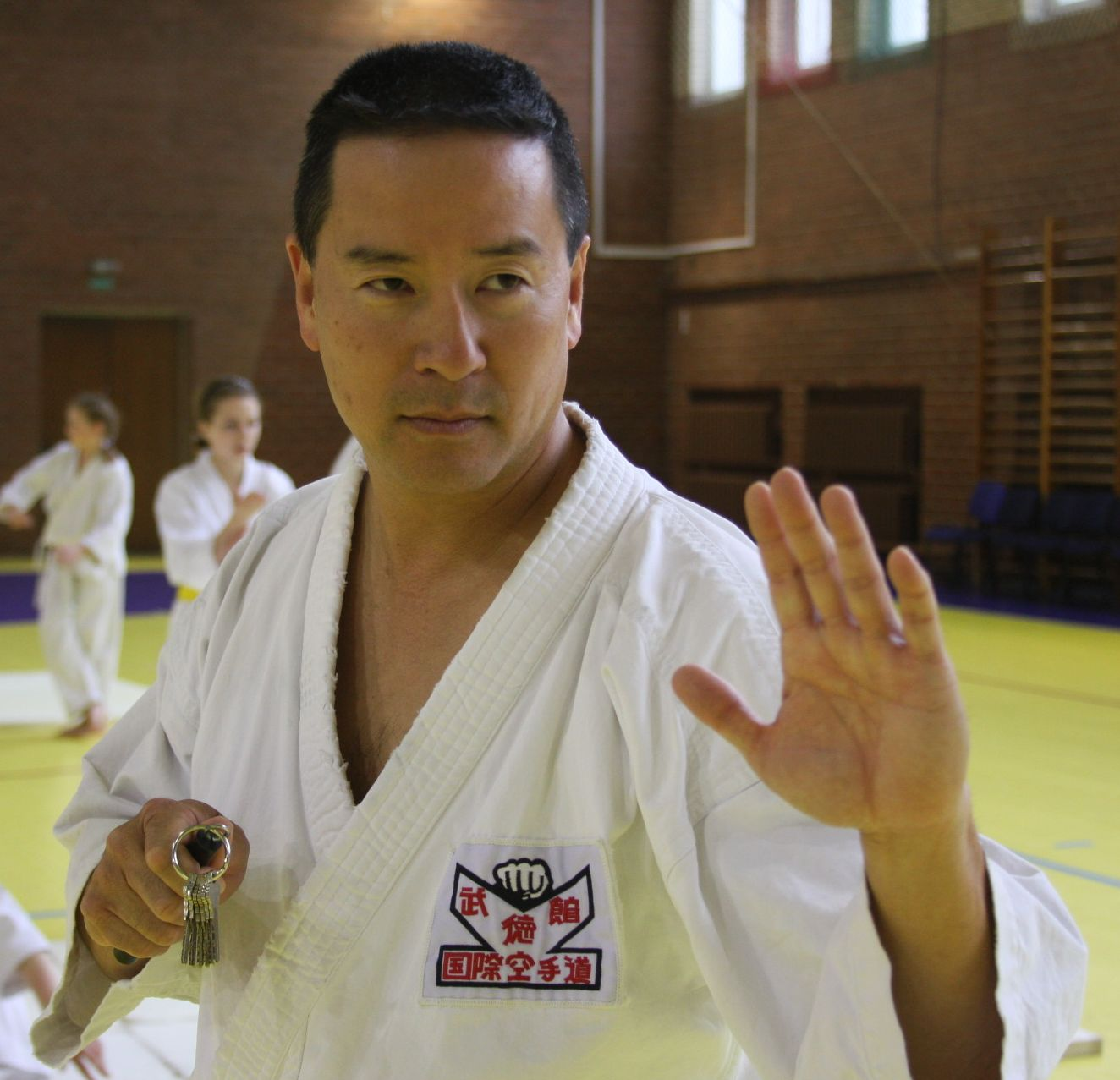 Shihan KURATOMI in gi with IKA patch & kubotan